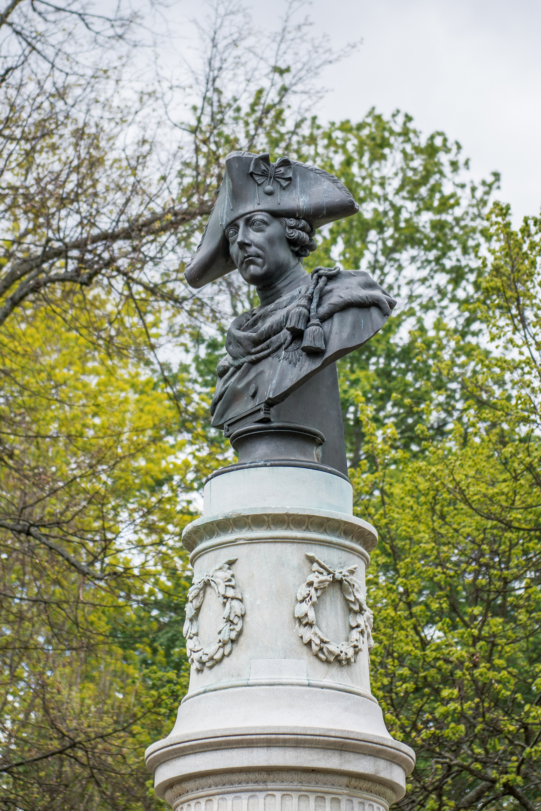 Monument of Frederick the Great: King of Prussia